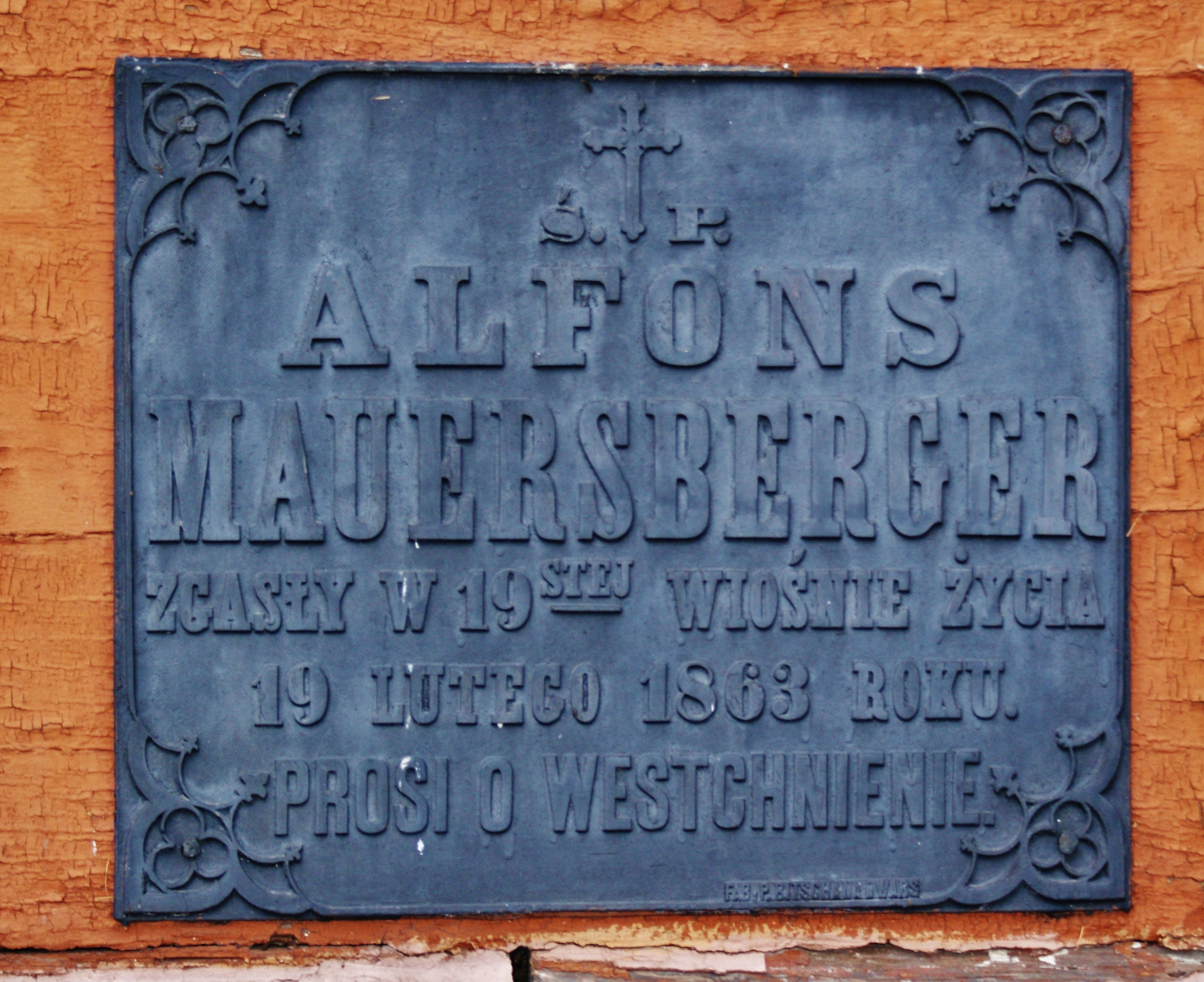 Alfons Mauersberg epitaph. 1863 January Uprising insurgent died in battle. Parish church of the Holy Assumption in Krzywosądz, Kuyavian-Pomeranian Voivodeship, Poland. The inscription says: "RIP Alfons Mauersberger faded out in his nineteenth spring of life, 19th February 1863. He asks for your sigh."